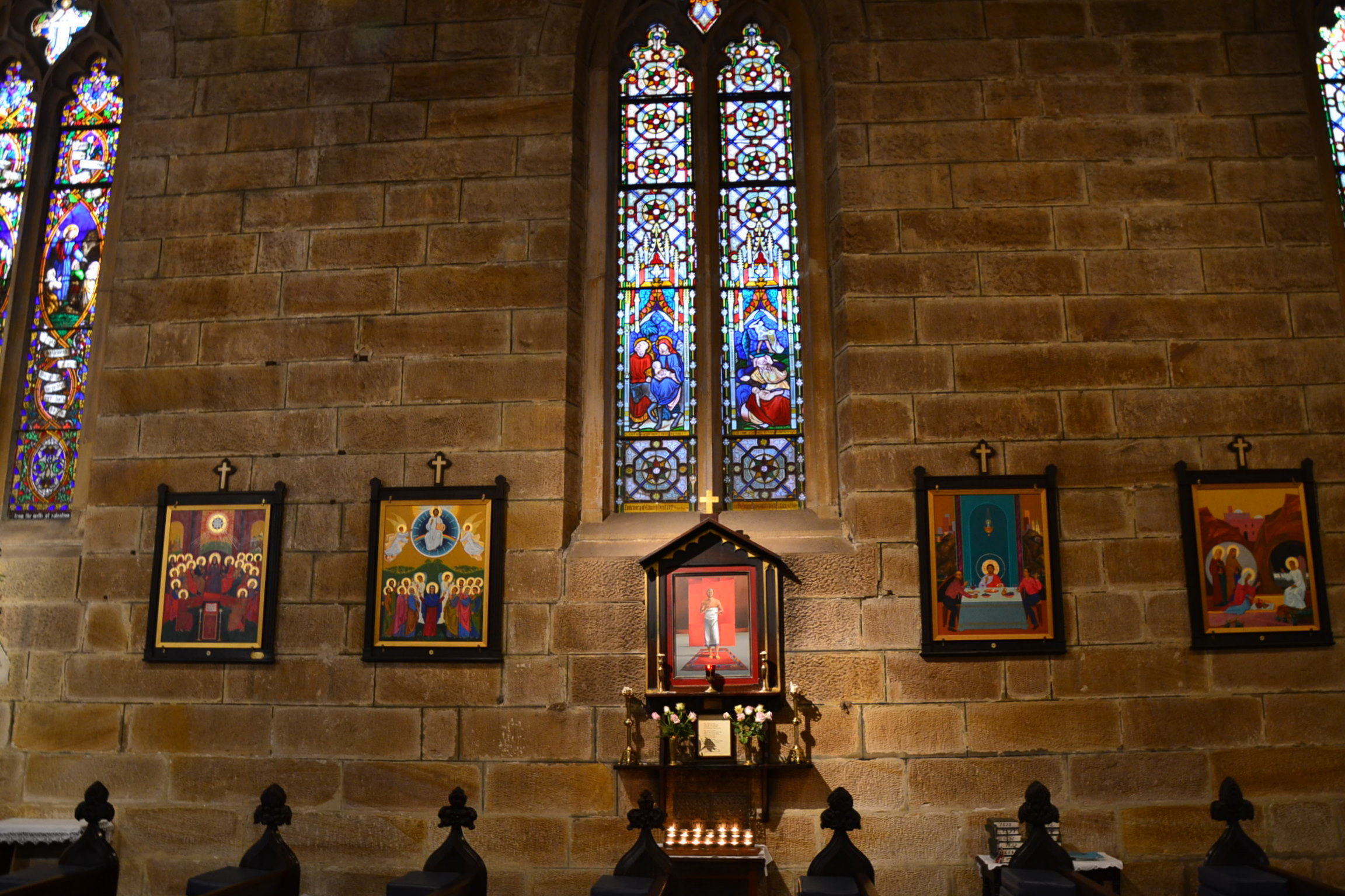 christ church st laurence, sydney